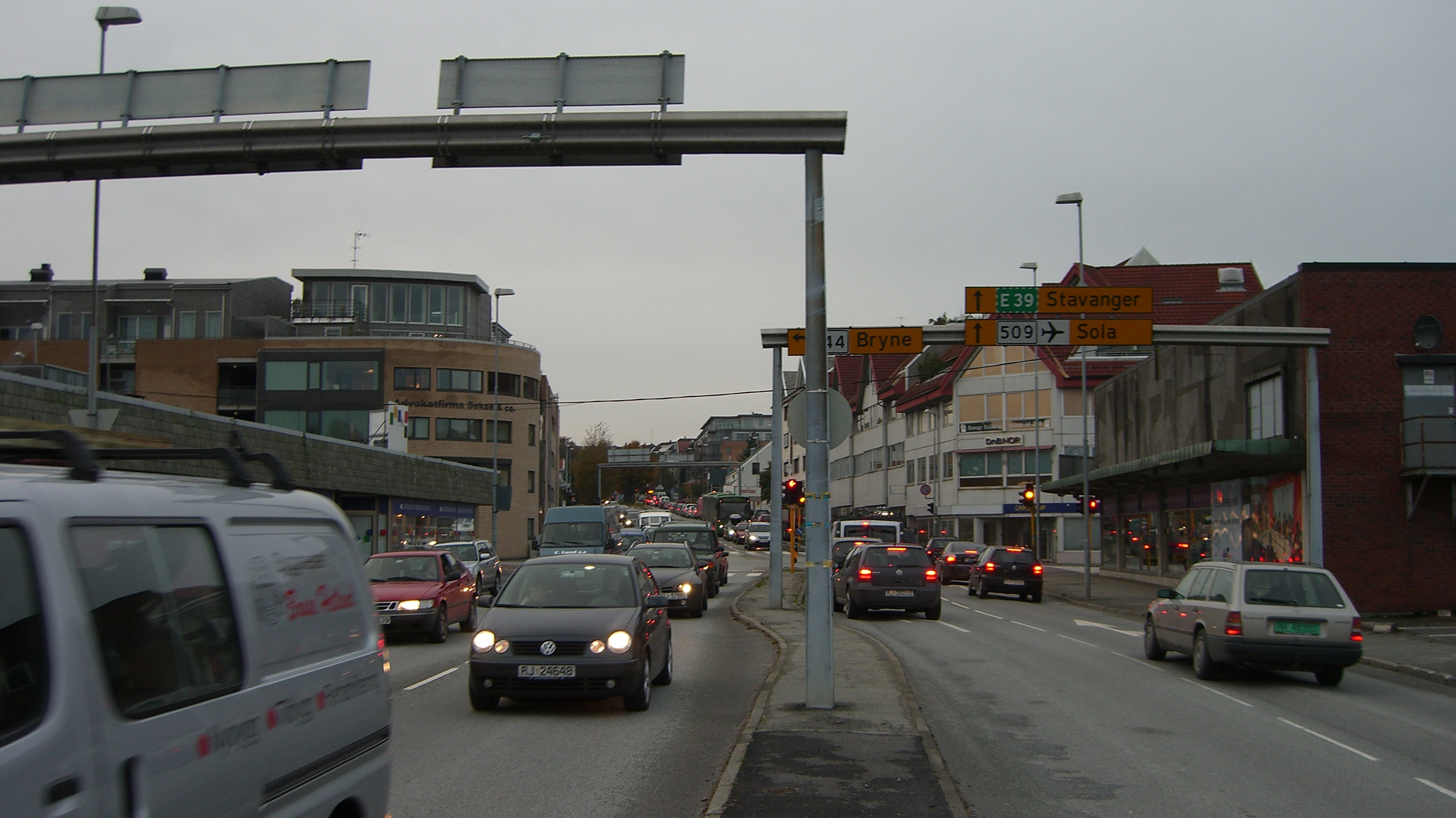 Oalsgata street in Sandnes, Norway